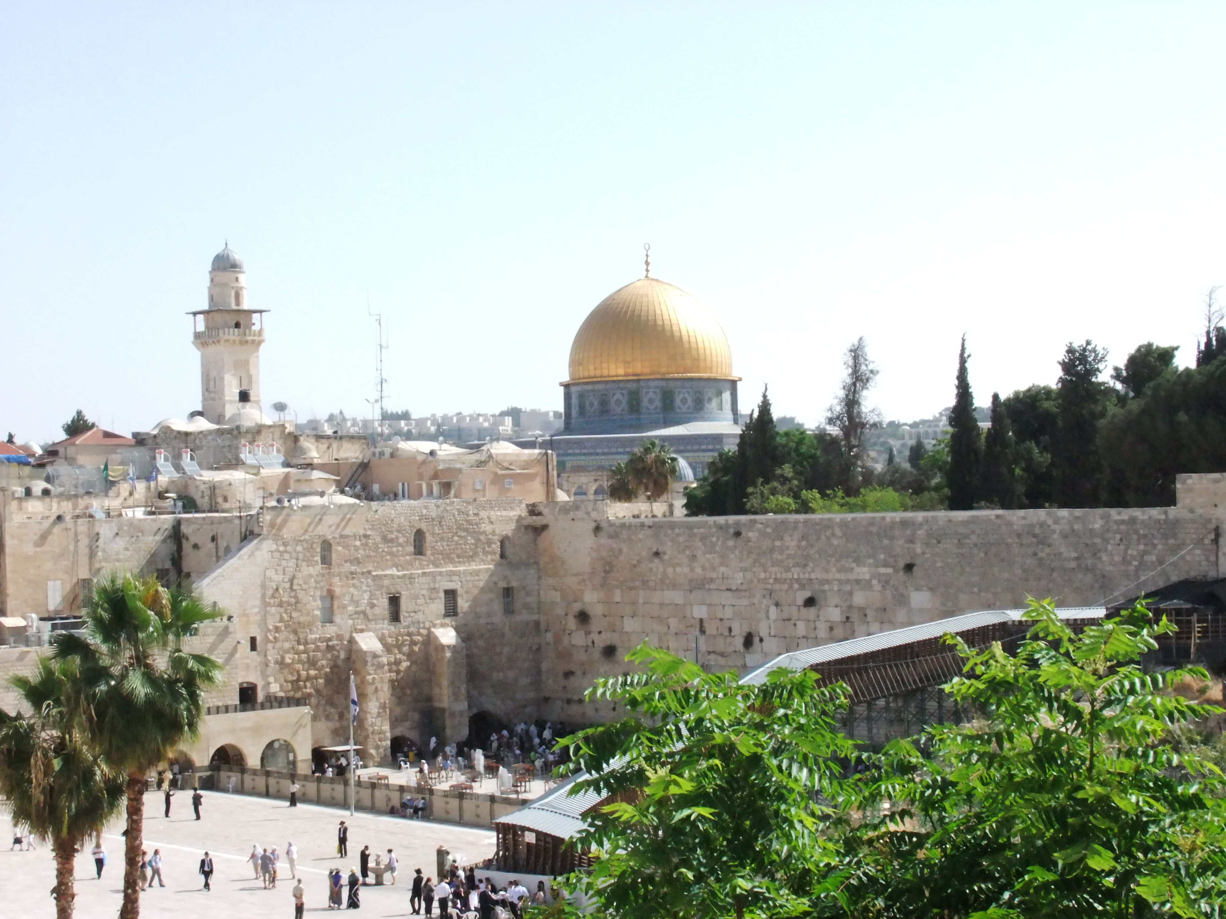 View from the Jewish quarter, the old city of Jerusalem